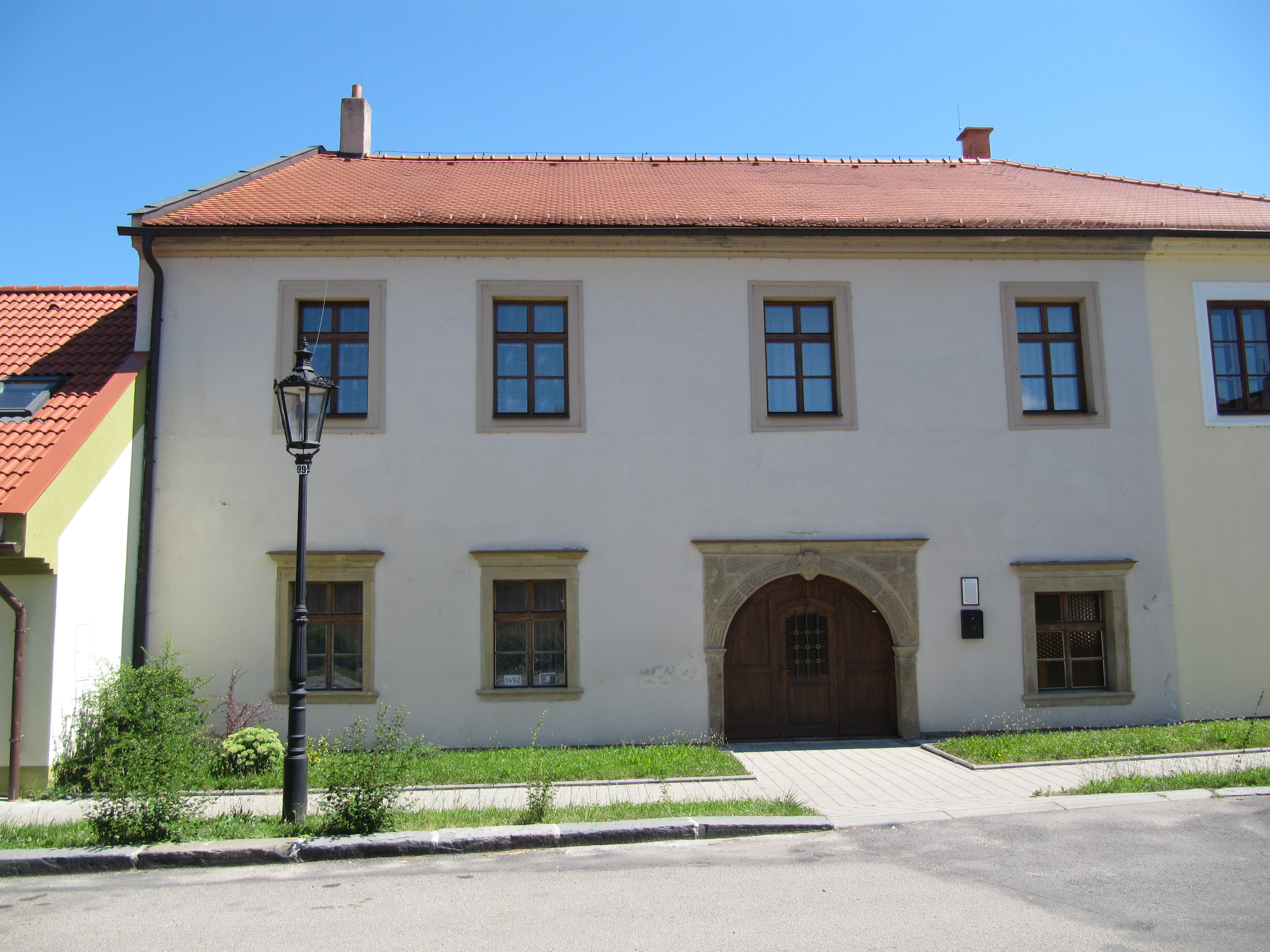 Kroměříž, Czech Republic. Princely house.